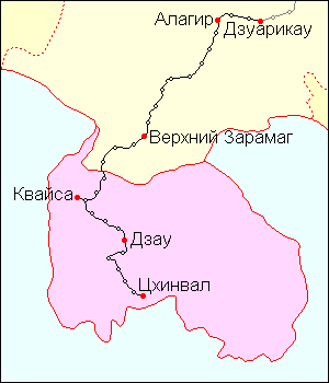 Dzuarikau–Tskhinval pipeline